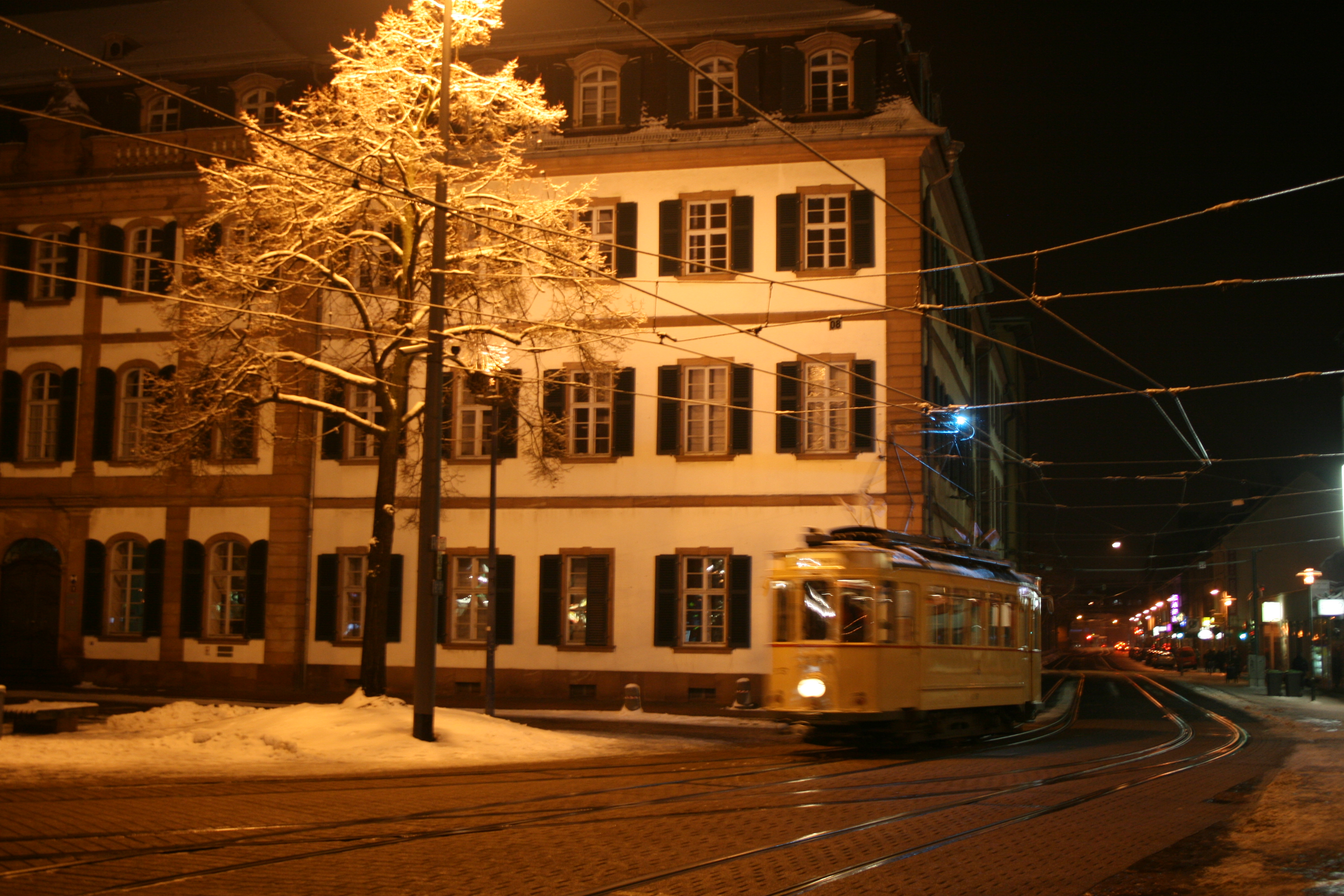 Employees of HEAG-Mobilo are using a historic tram to remove ice from the of overhead line the trams in Darmstadt, Germany, after massive freezing rain.